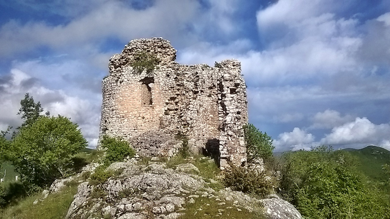 Čačvina castle